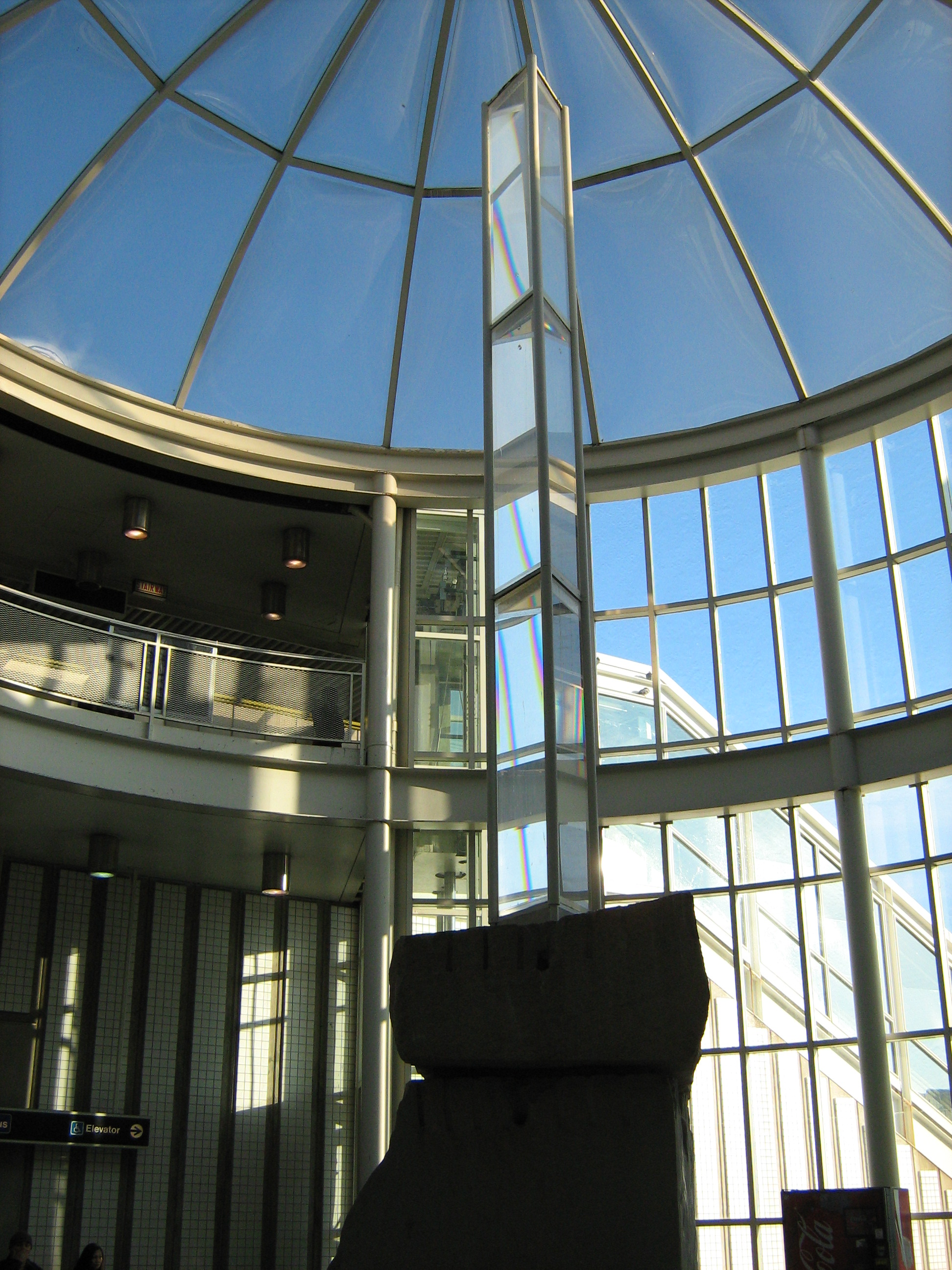 Rockbow Sculpture Cumberland CTA